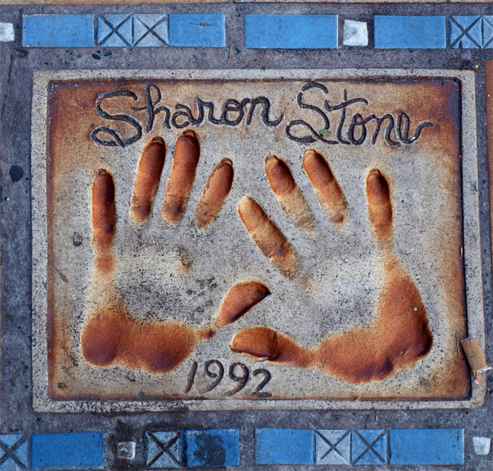 Hands Prints of Sharon Stone near the Palais des Festivals (Cannes)